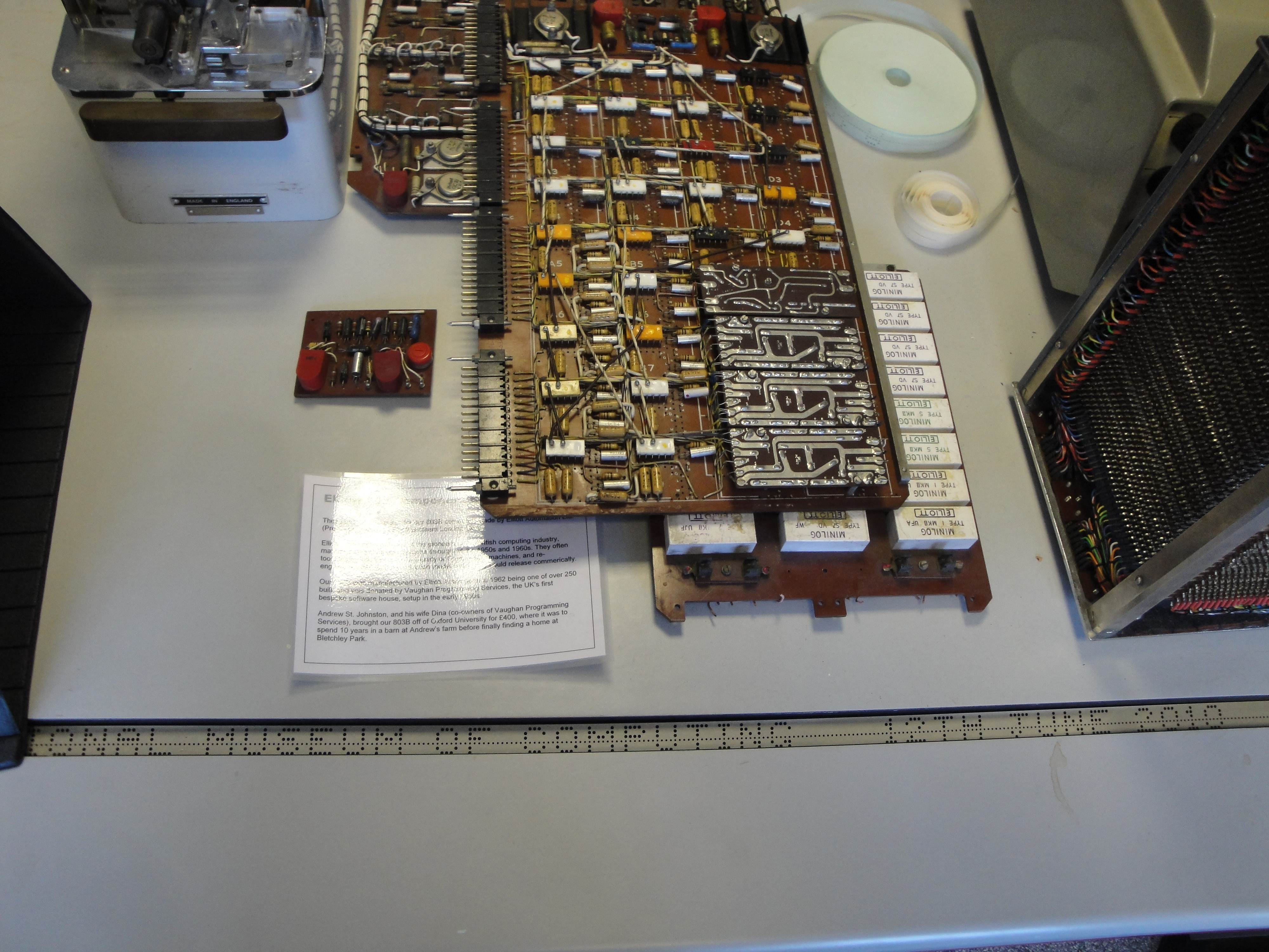 Elliott 803B on display at Bletchley Park.